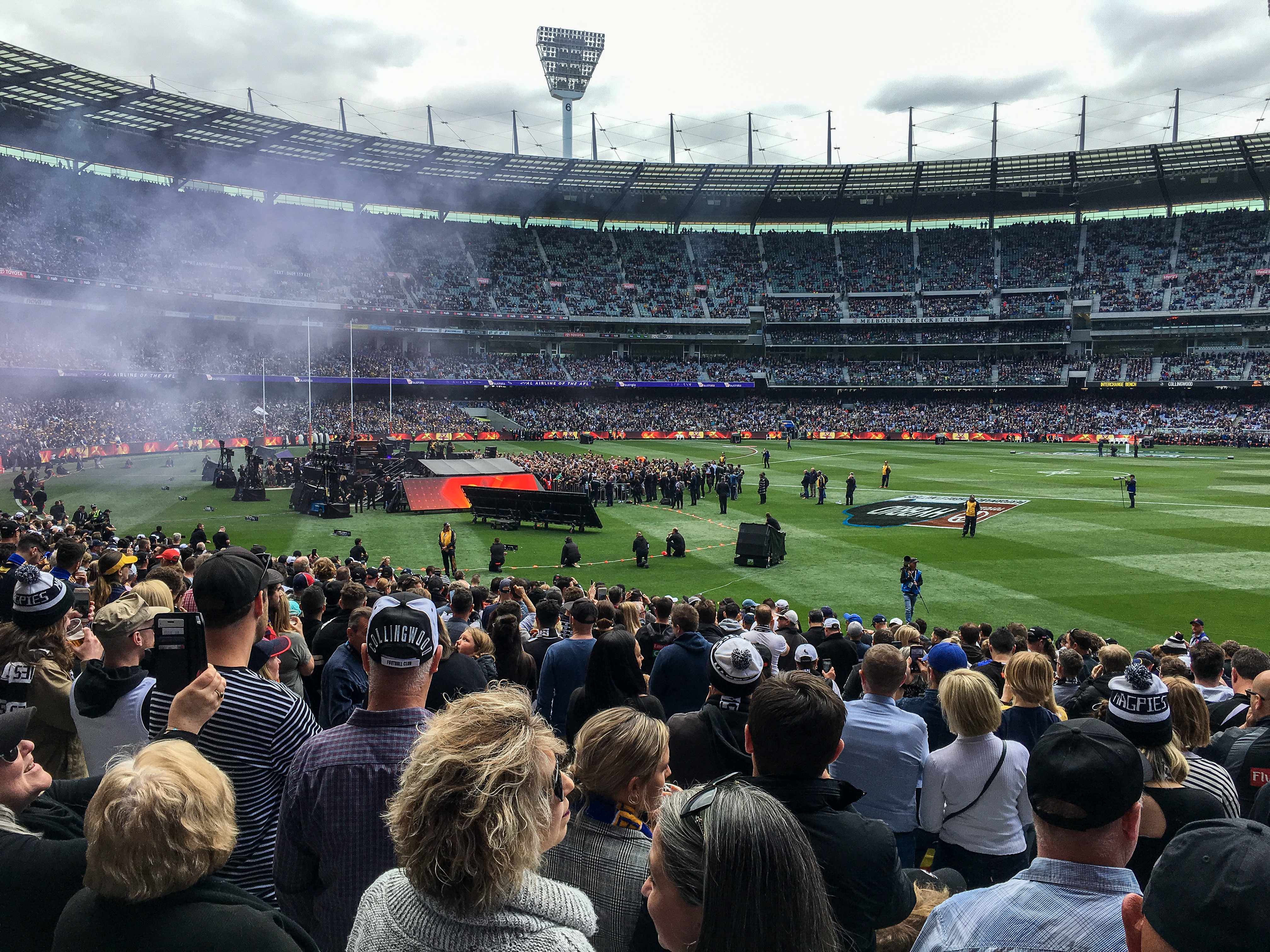 The Black Eyed Peas performing prior to the AFL Grand Final on 29 September 2018 in Melbourne, Victoria.